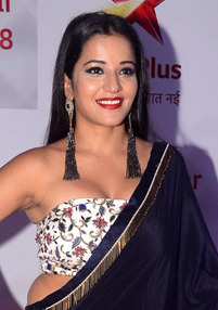 Monalisa graces the Star Parivaar Awards 2018